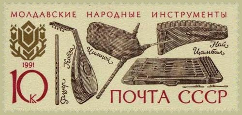 USSR Postage stamp with the Moldovan folk instruments on it.